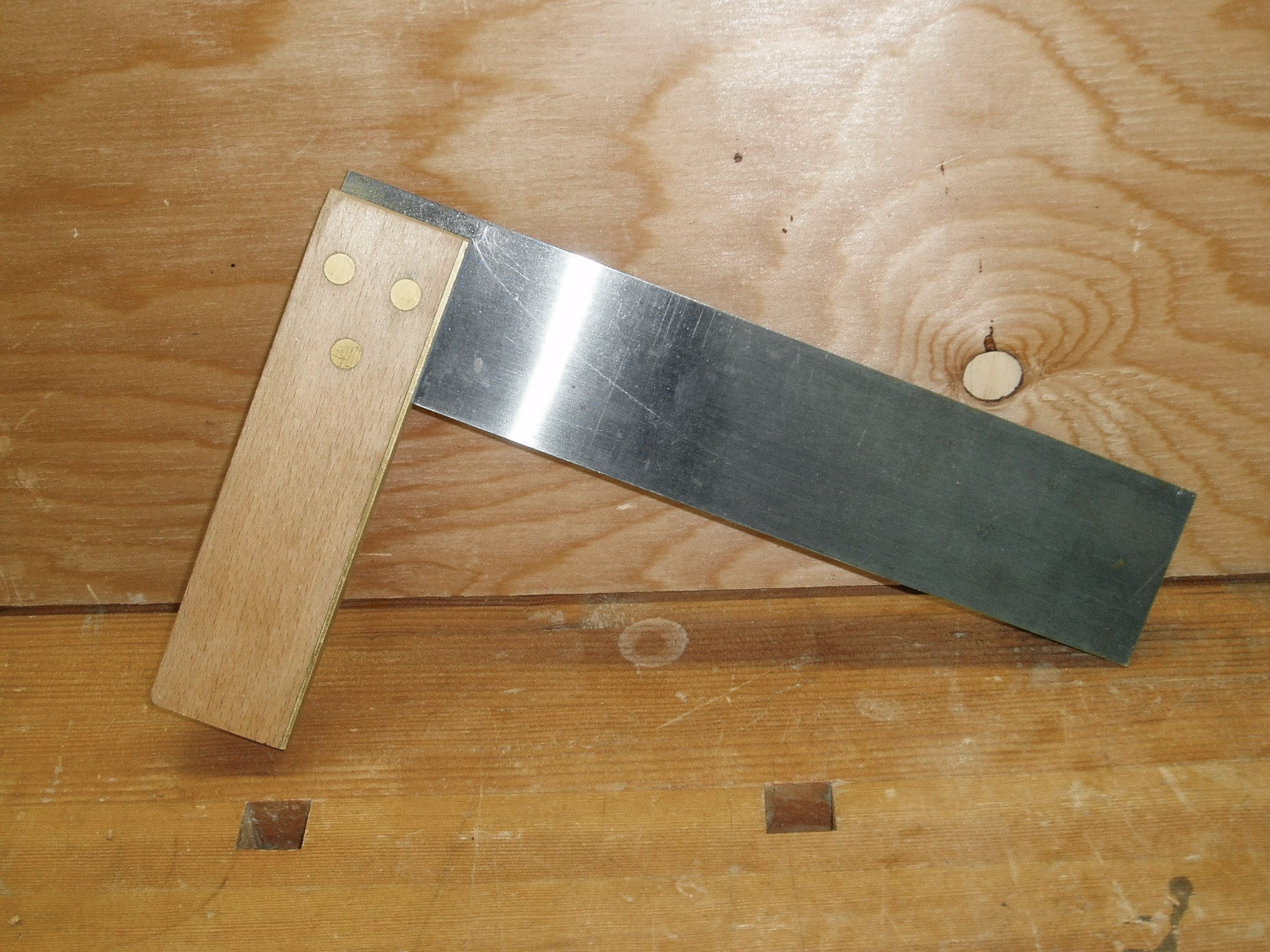 Picture of cabinetmaker's try square taken 18 September, 2005 by Luigi Zanasi (myself) on my workbench using a Olympus digital camera.